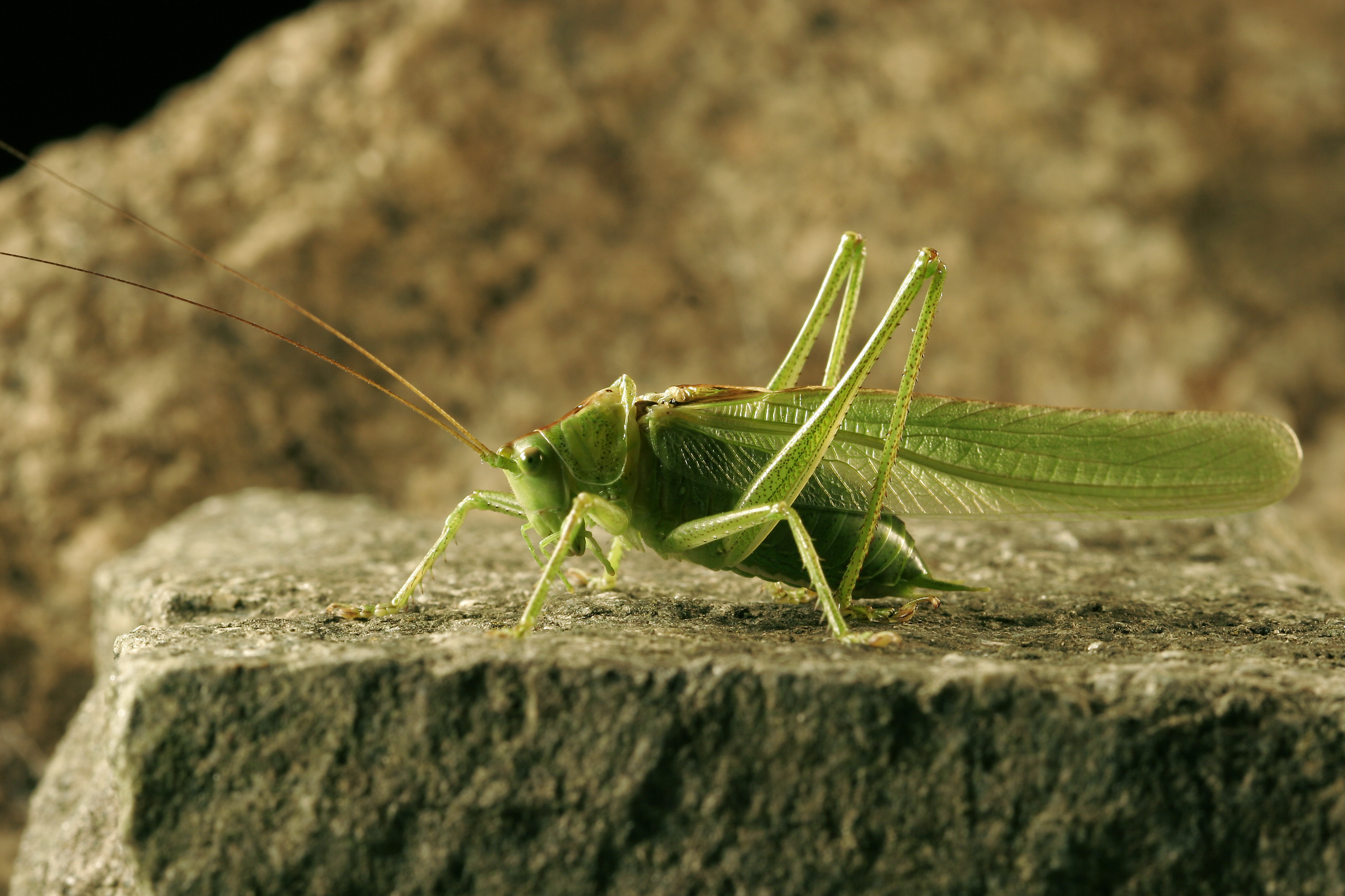 Tettigonia viridissima in Bensheim (Hesse, Germany)